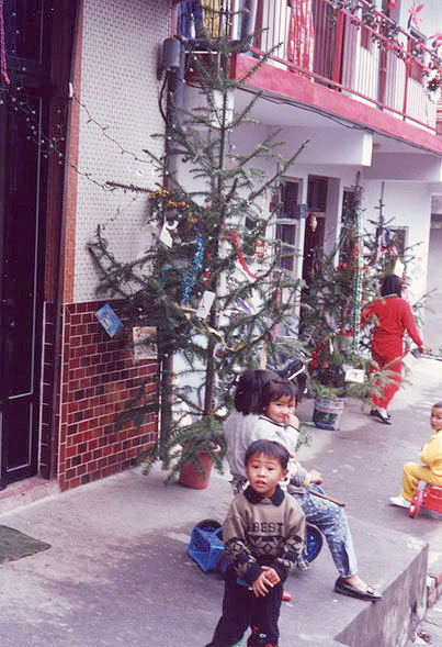 Taiwanese aboriginals celebrate with trees outside their homes. 中文（中国大陆）: 台湾原住民在基督教传教士影响下也装饰圣诞树